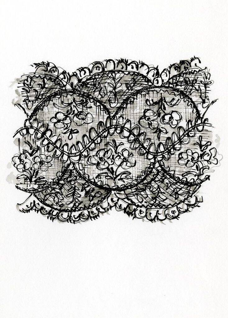 Drawing of the Thesaurus concept : 'galloon'